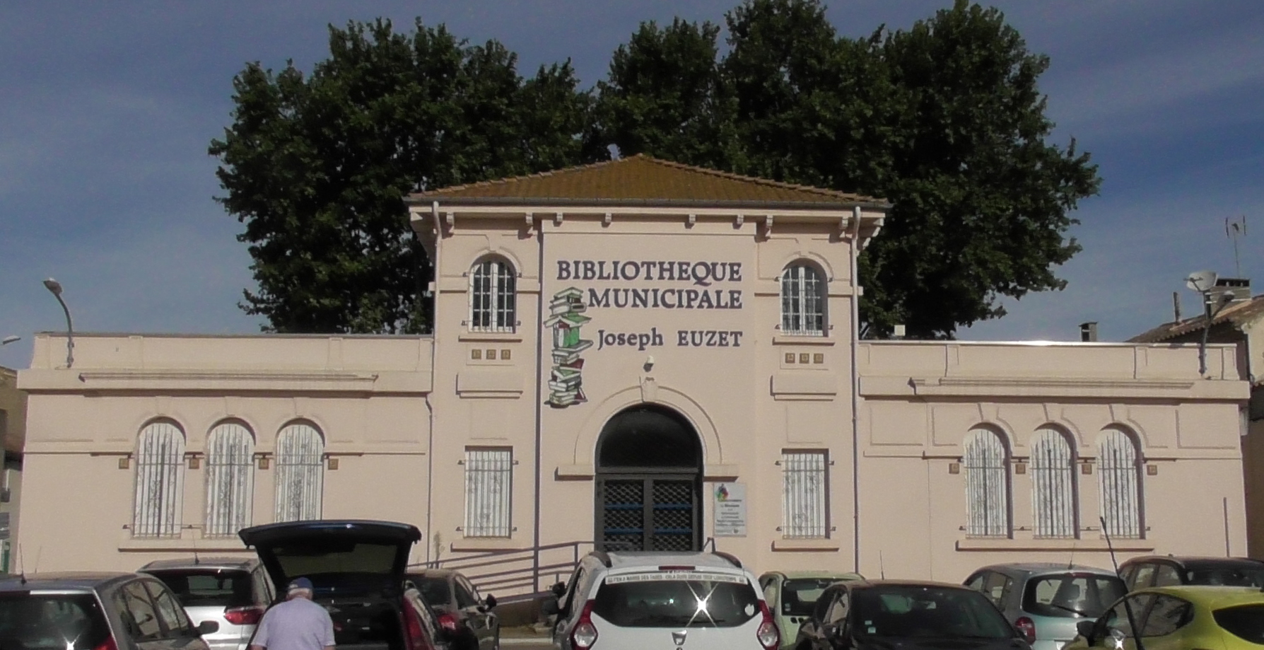 Initially shower-baths, the building served as a library and then as a classroom at the intercommunal conservatory of music